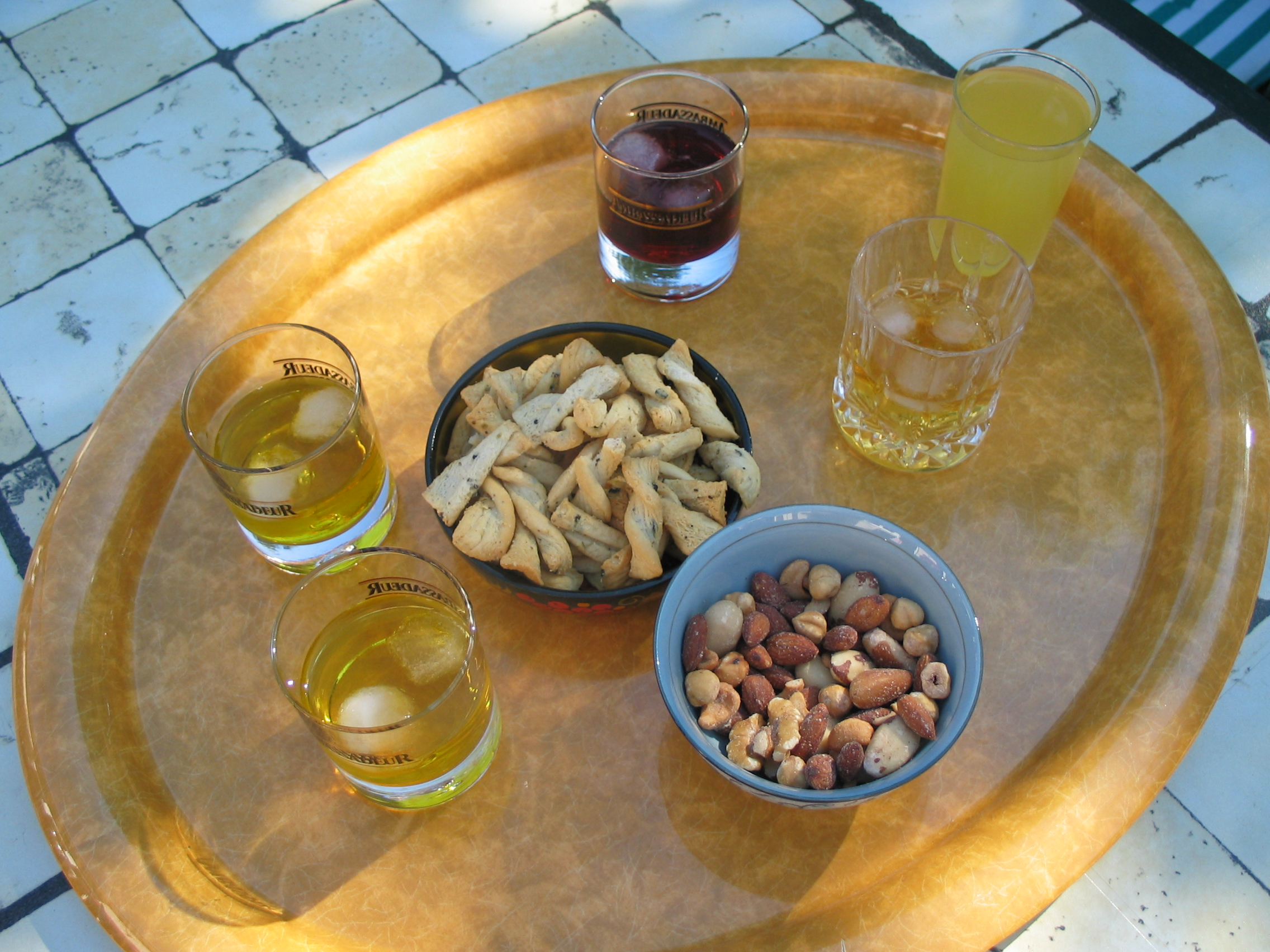 Aperitif before dinner in the garden.